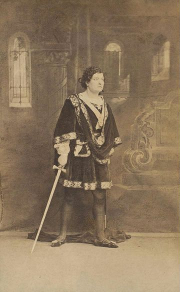 Carte de visite photograph of actress Alice Marriott (1824-1900), as Hamlet at Sadlers Wells Theatre.